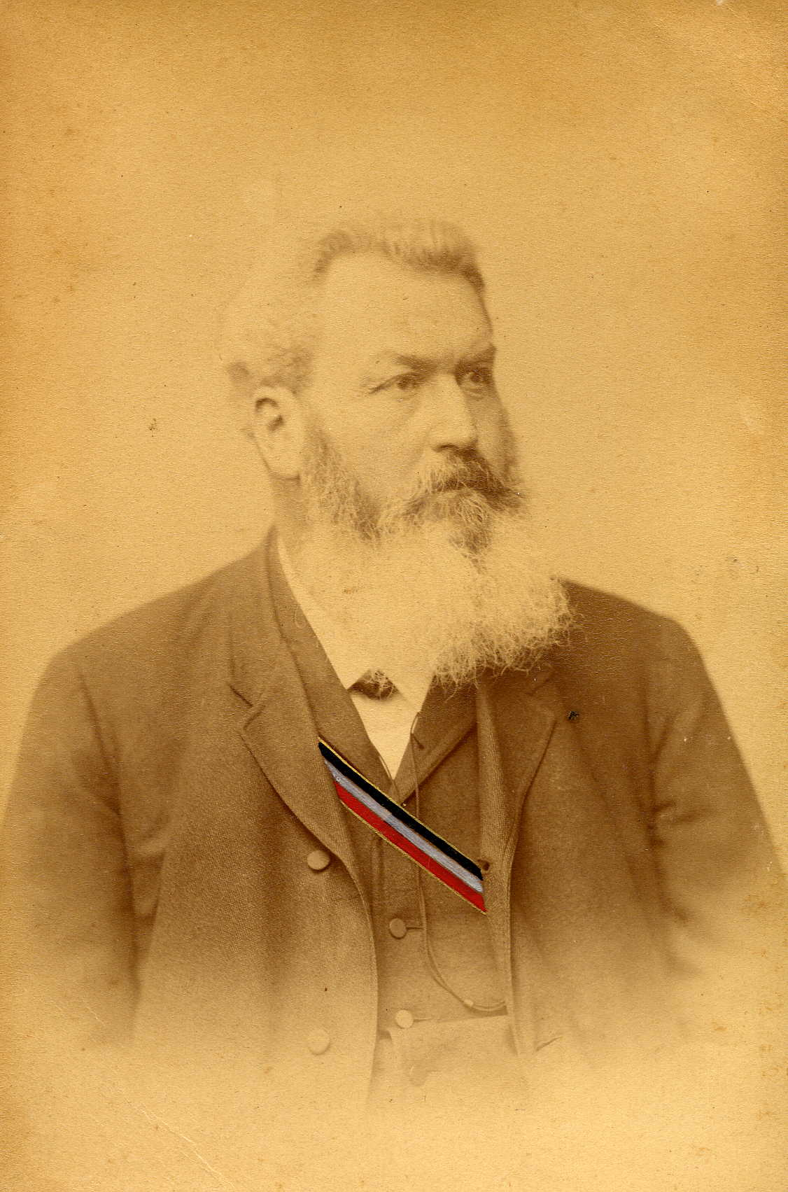 Photographic portrait of Karl Umpfenbach